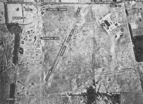 Aerial photograph of East Wretham Airfield, England.